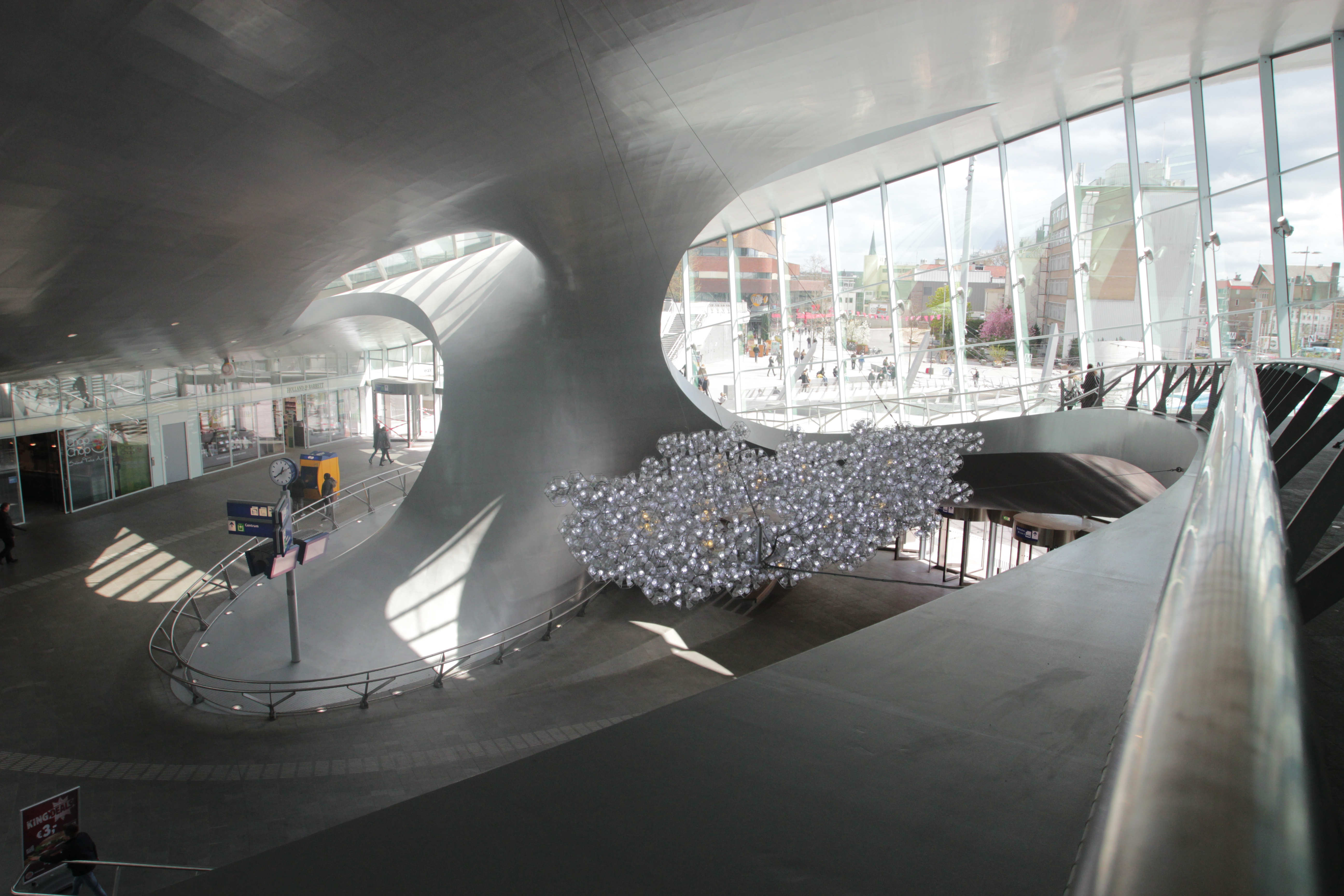 inside Arnhem central station